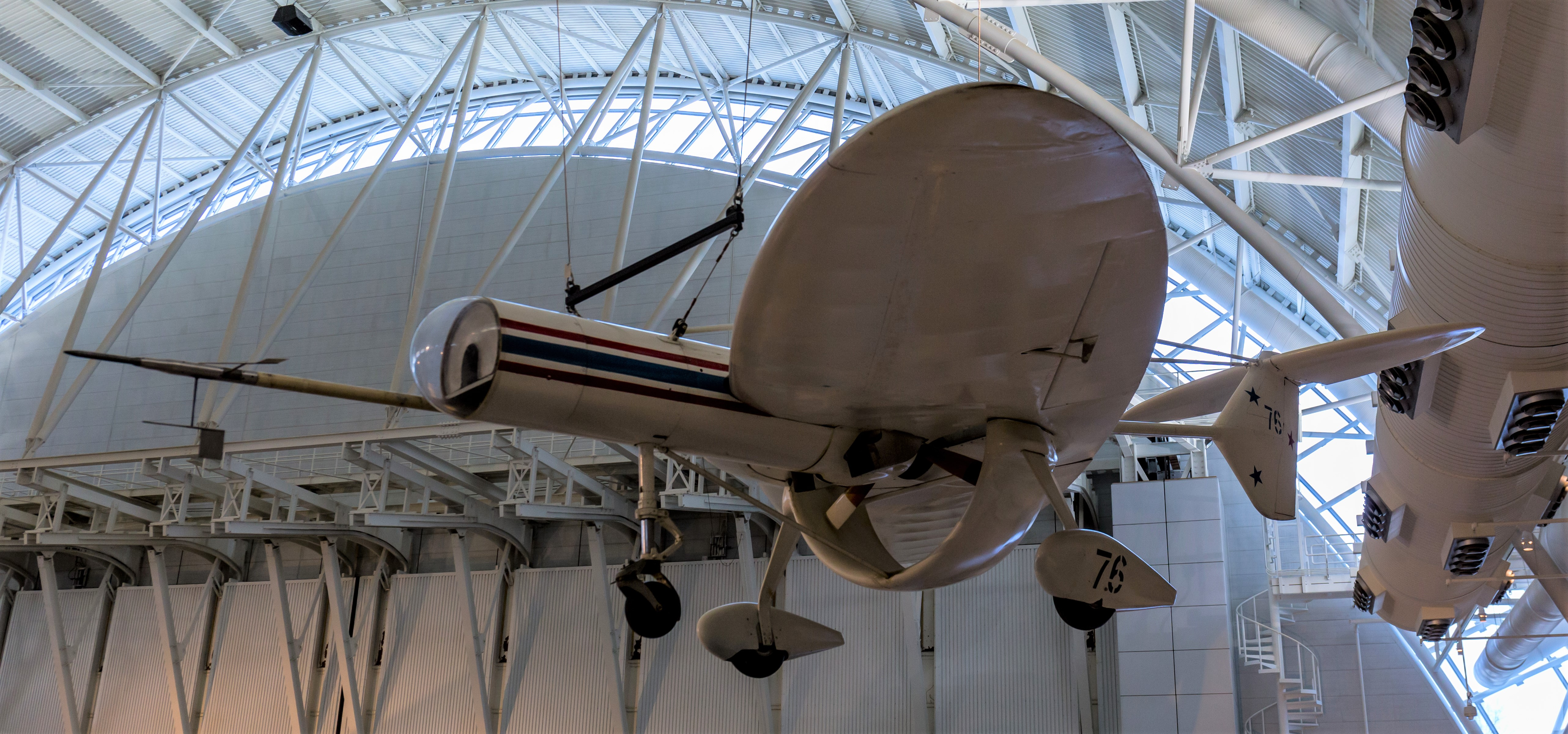 The NASA Oblique Wing Research Aircraft on display at the Smithsonian National Air and Space Museum Udvar-Hazy Center. Its test results led to the development of the AD-1.